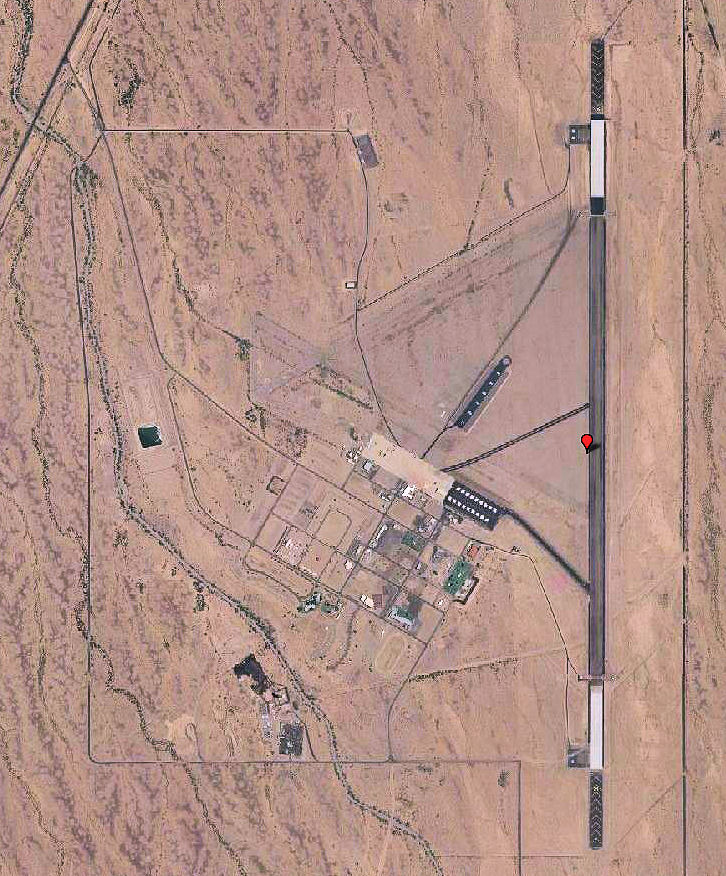 USGS digital orthophoto of Gila Bend Air Force Auxiliary Field in Gila Bend, Arizona, United States